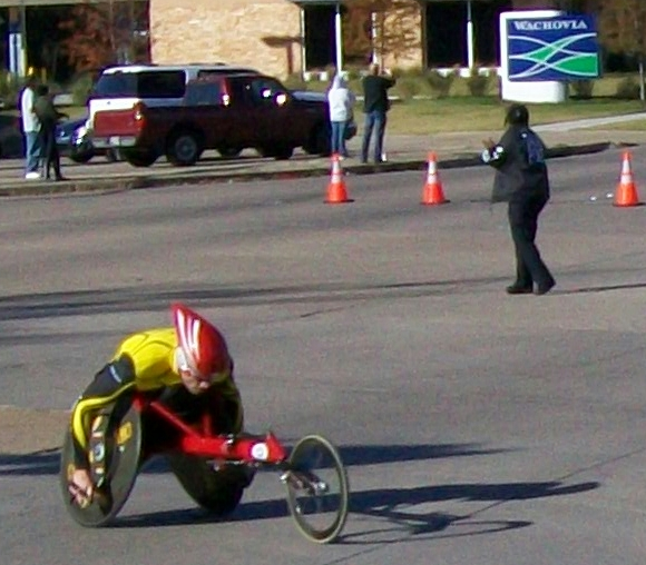 Justin Meaders, overall winner of the 2009 Turkey Trot